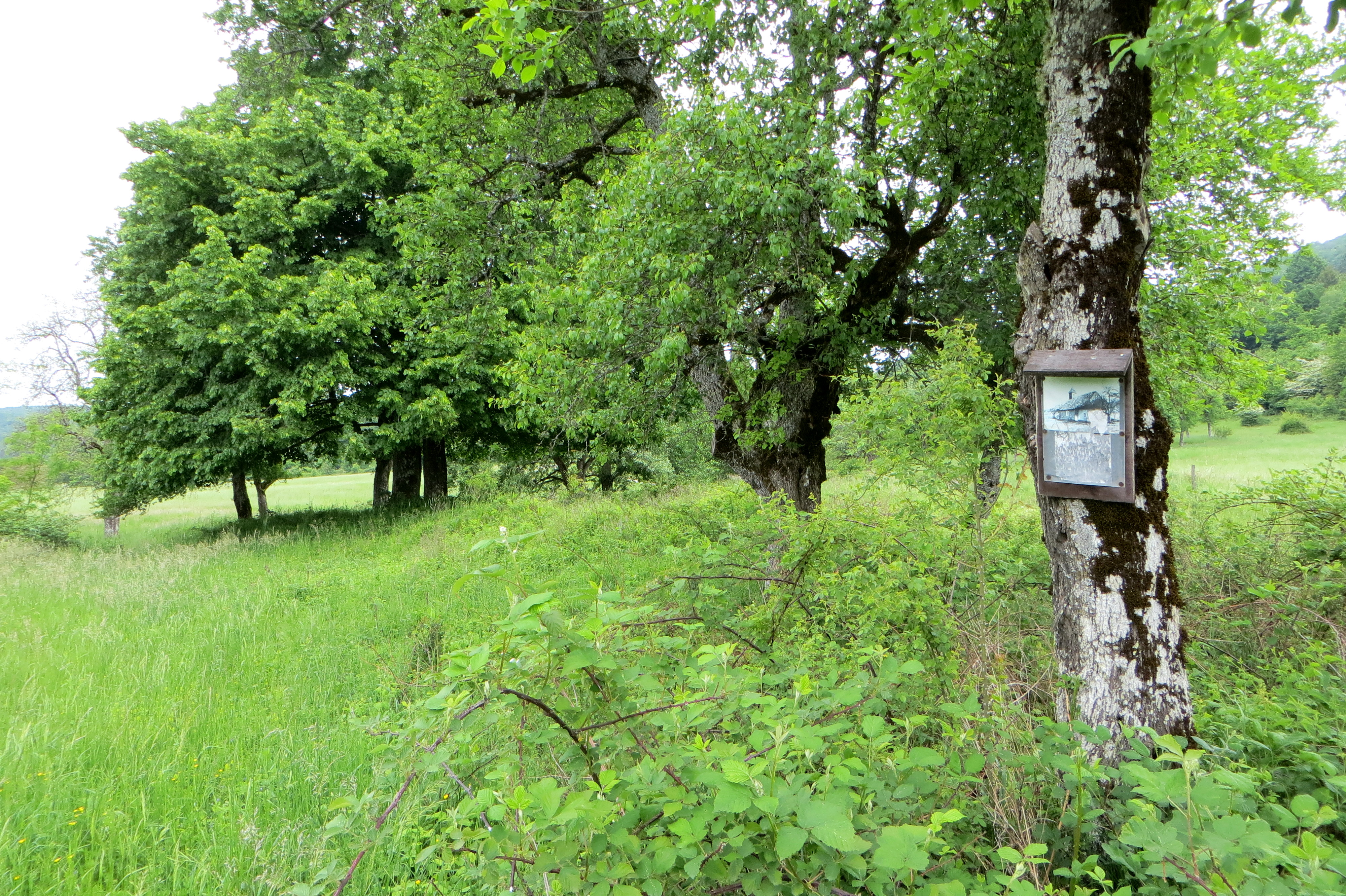 Saints Cosmas and Damian chapel site in Onek, Municipality of Kočevje, Slovenia